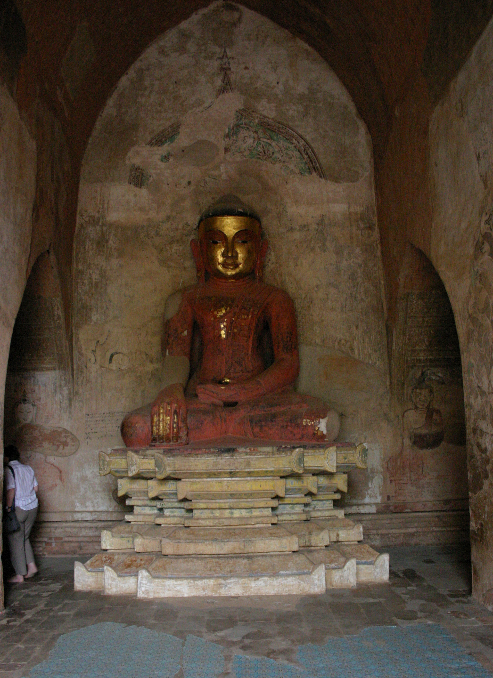 Sulamani temple, Bagan, Myanmar.